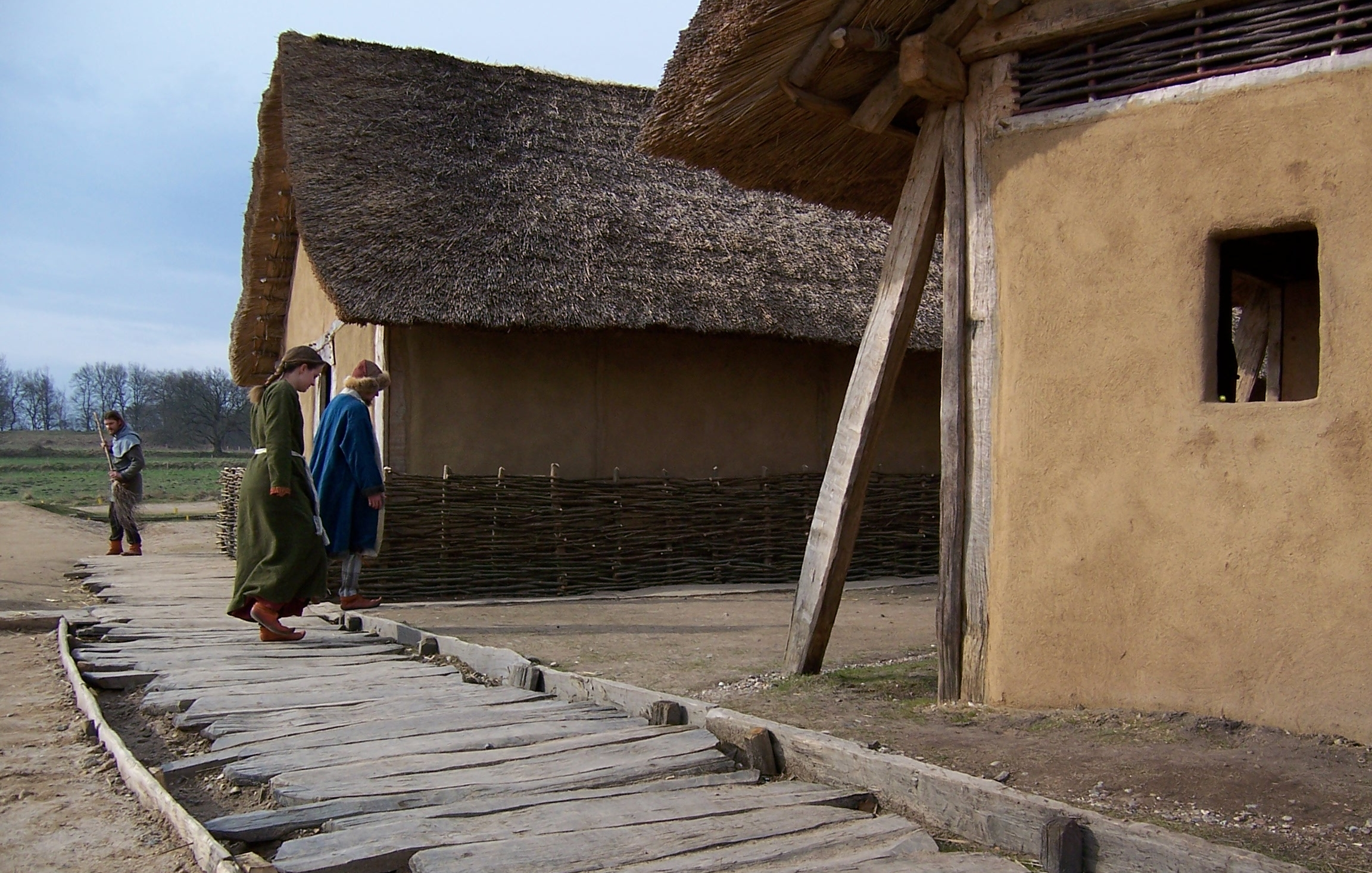 Author: Caravaca. Date: April 2006. Description: Reconstructed Viking houses at Hedeby (Haithabu) in Northern Germany.